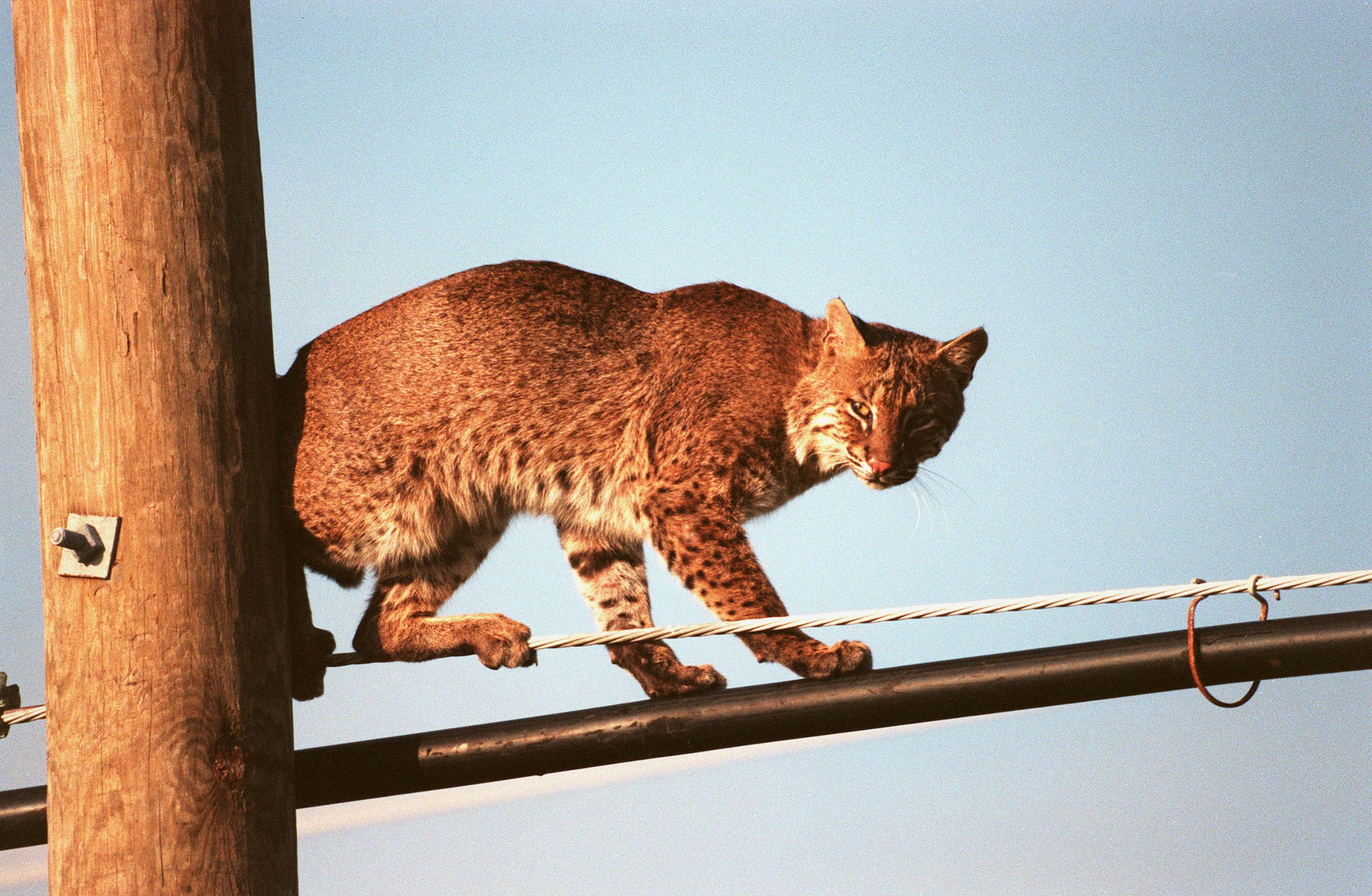 Lynx rufus (bobcat), Kennedy Space Center, Merritt Island National Wildlife Refuge, Florida, United States.